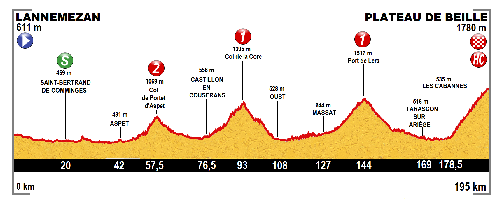 Profile of the 12th stage of the Tour de France 2015